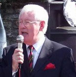 Don Touhig, MP for Islwyn